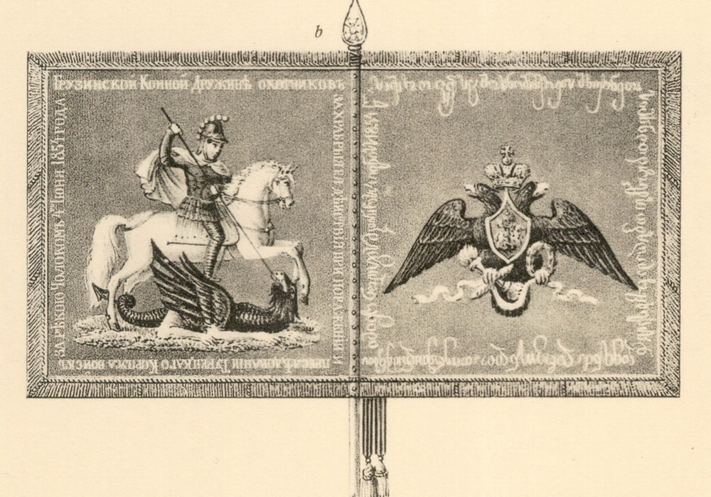 The war standard of the Georgian cavalry druzhina of the Imperial Russian Army. The inscription reads in Russian and Georgian: "To the Georgian Cavalry Druzhina of Hunters for Courageous Action in the Defeat and Pursuit of the Turkish Army Corps at the River Cholok, 4 June 1854."